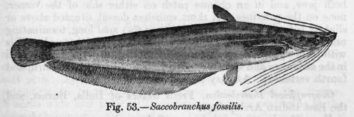 Saccobranchus fossilis = Heteropneustes fossilis (Bloch, 1794)